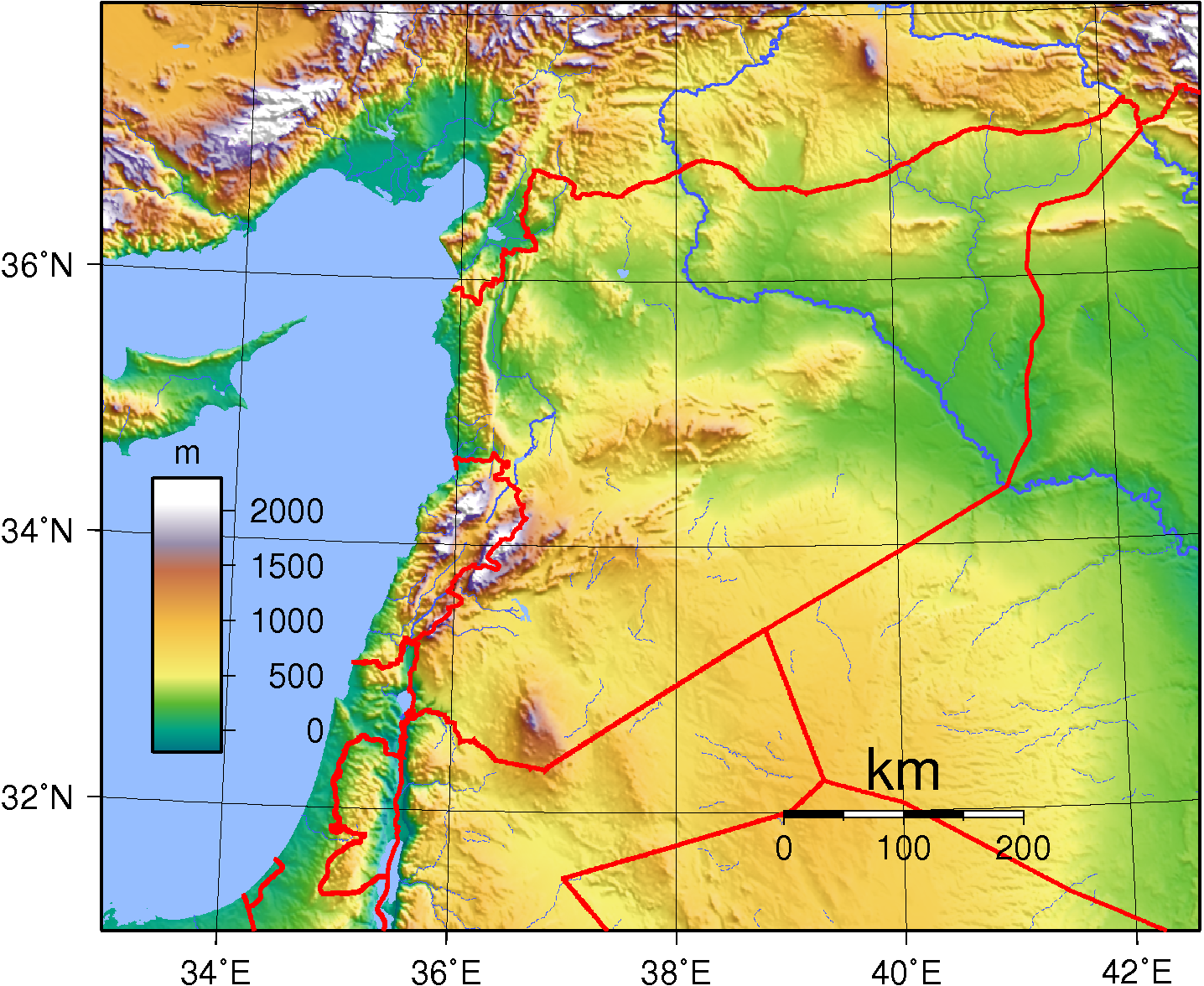 Topographic map of Syria. Created with GMT from SRTM data.